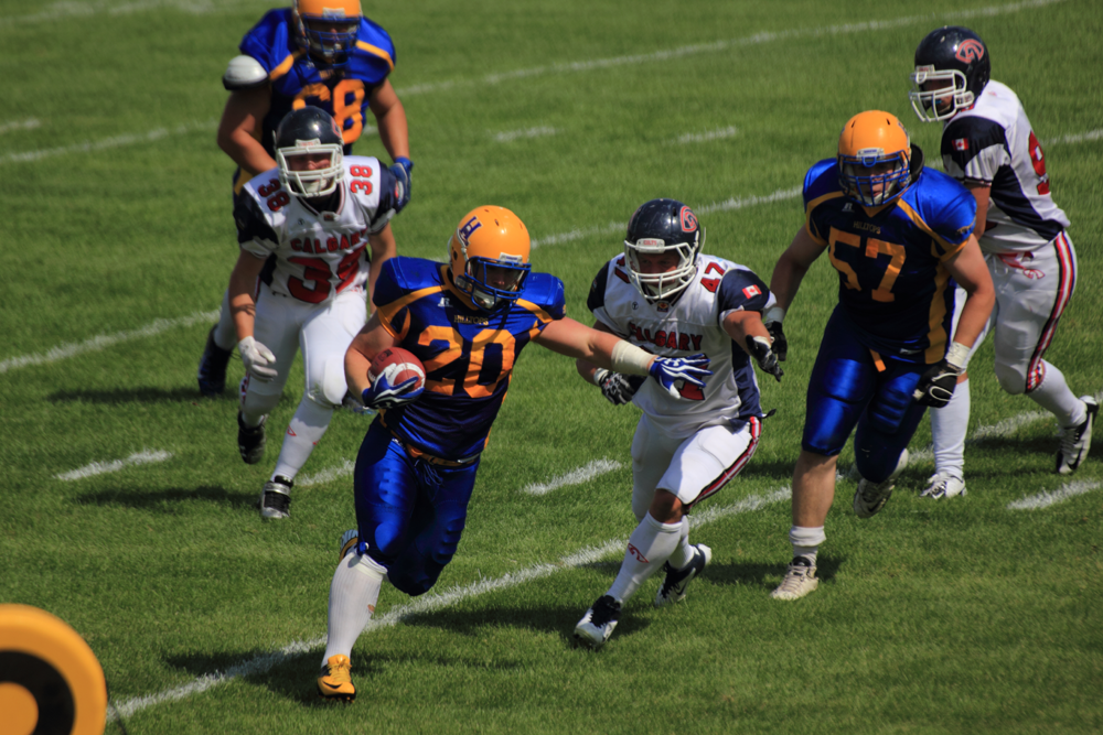 August 12 1:00 pm season starter game for the Hilltops in the Prairie Football Conference. Canadian Junior Football League teams included Calgary and Saskatoon. Calgary Colts were the visitors at Gordie Howe Bowl home to the Saskatoon Hilltops Andre Lalonde number 20 is seen here coming in with a touchdown at 2:29 p.m. In the last minutes of the game Saskatoon was ahead by one point, Calgary kicked a field goal to win the game by two points. Saskatoon Hilltops player 57 is Tanner Cooke. Calgary Colts roster for player 47 and 38 is not online yet. You may email for a larger rendition of this image or for other game photos. Photograph attribution Julia Adamson